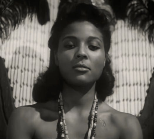 Kim Hamilton in The Leech Woman - trailer (cropped screenshot)